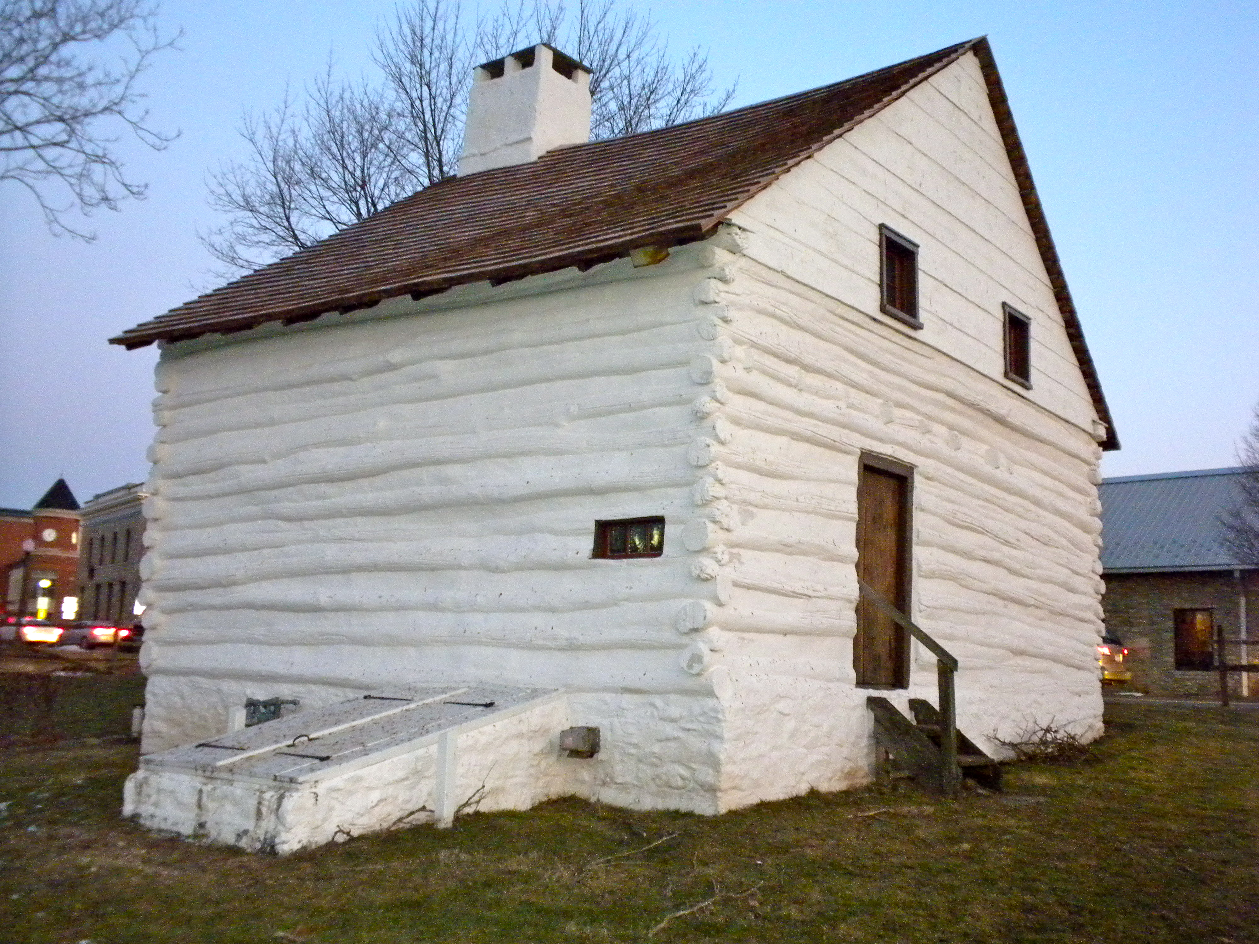 Log house next to Brandywine Creek in Downingtown, Pennsylvania, on UR Route 30 - the Lincoln Highway Built about 1701. On NRHP